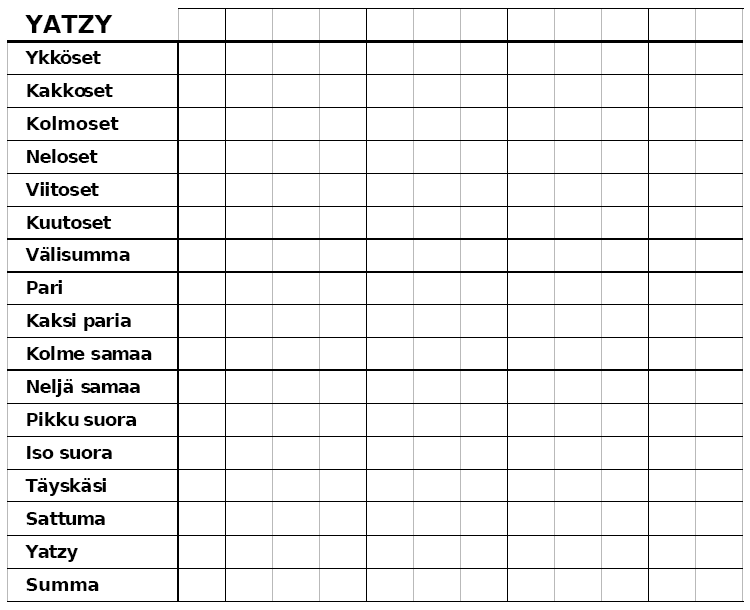 A Finnish Yahtzee scorecard